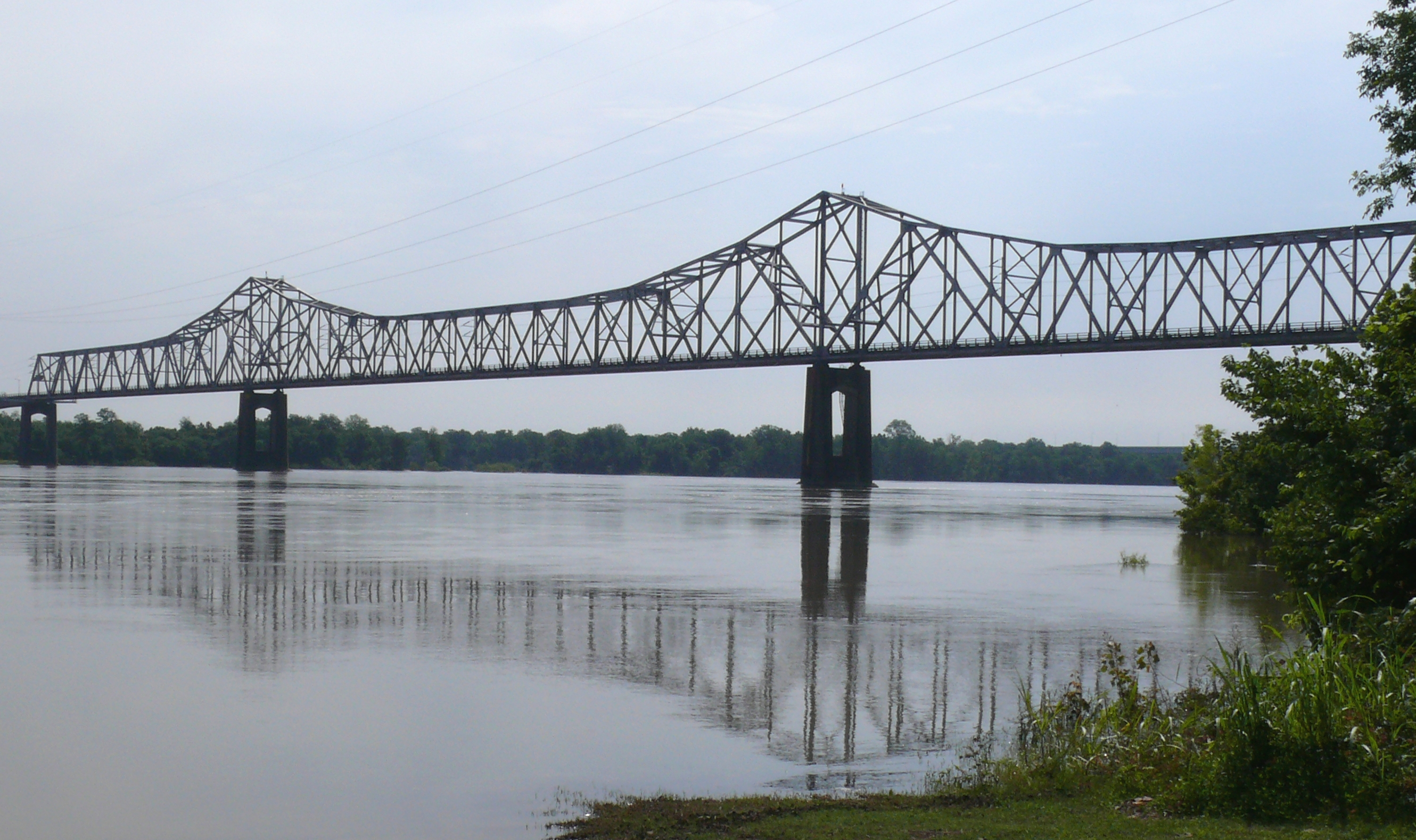 The Benjamin G. Humphreys Bridge is a two lane cantilever bridge carrying US 82 and US 278 across the Mississippi River between Lake Village (Arkansas) and Greenville (Mississippi)